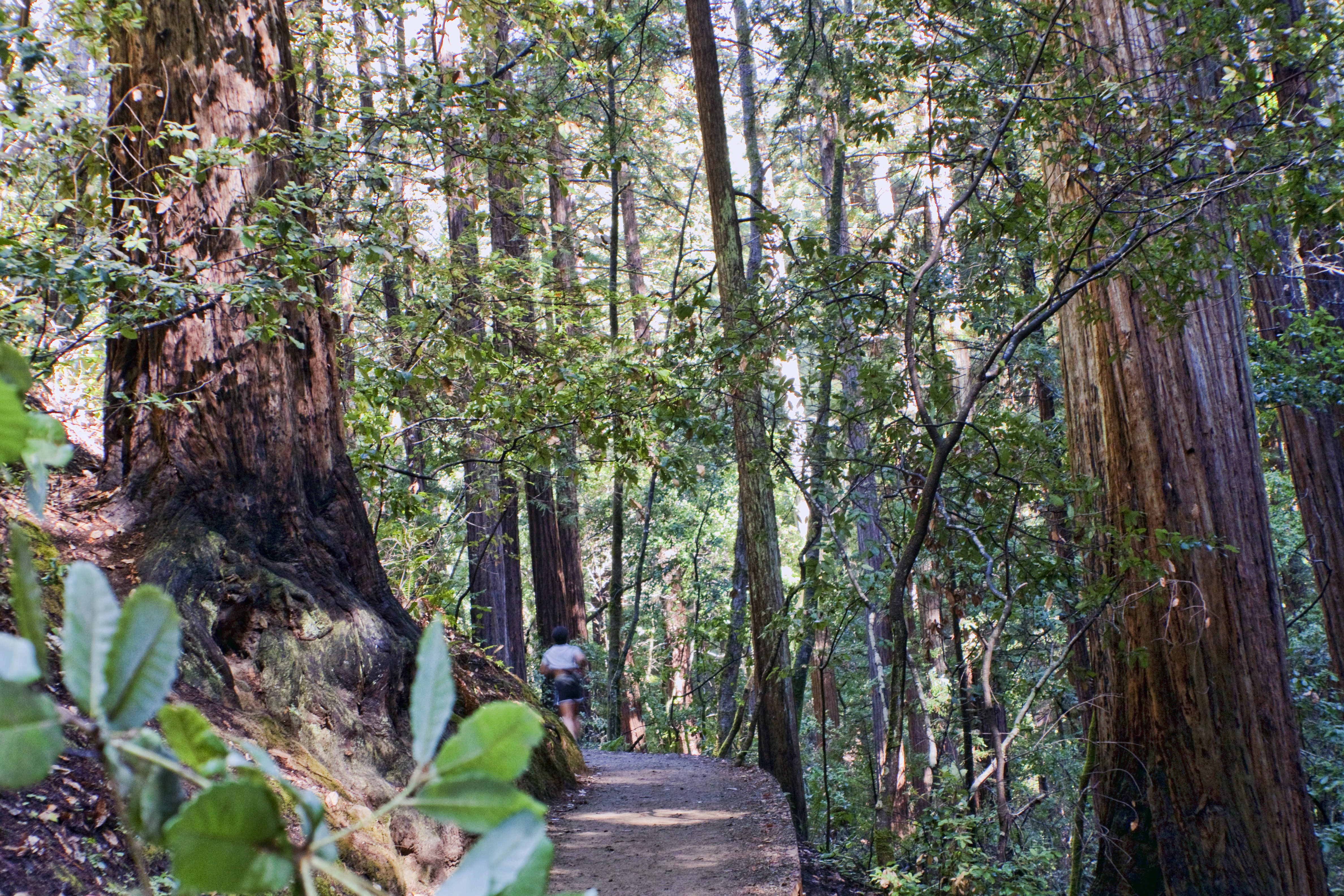 Muir Woods National Monument A jogger gets a good cardio workout running up and down the hills inside Muir Woods park.